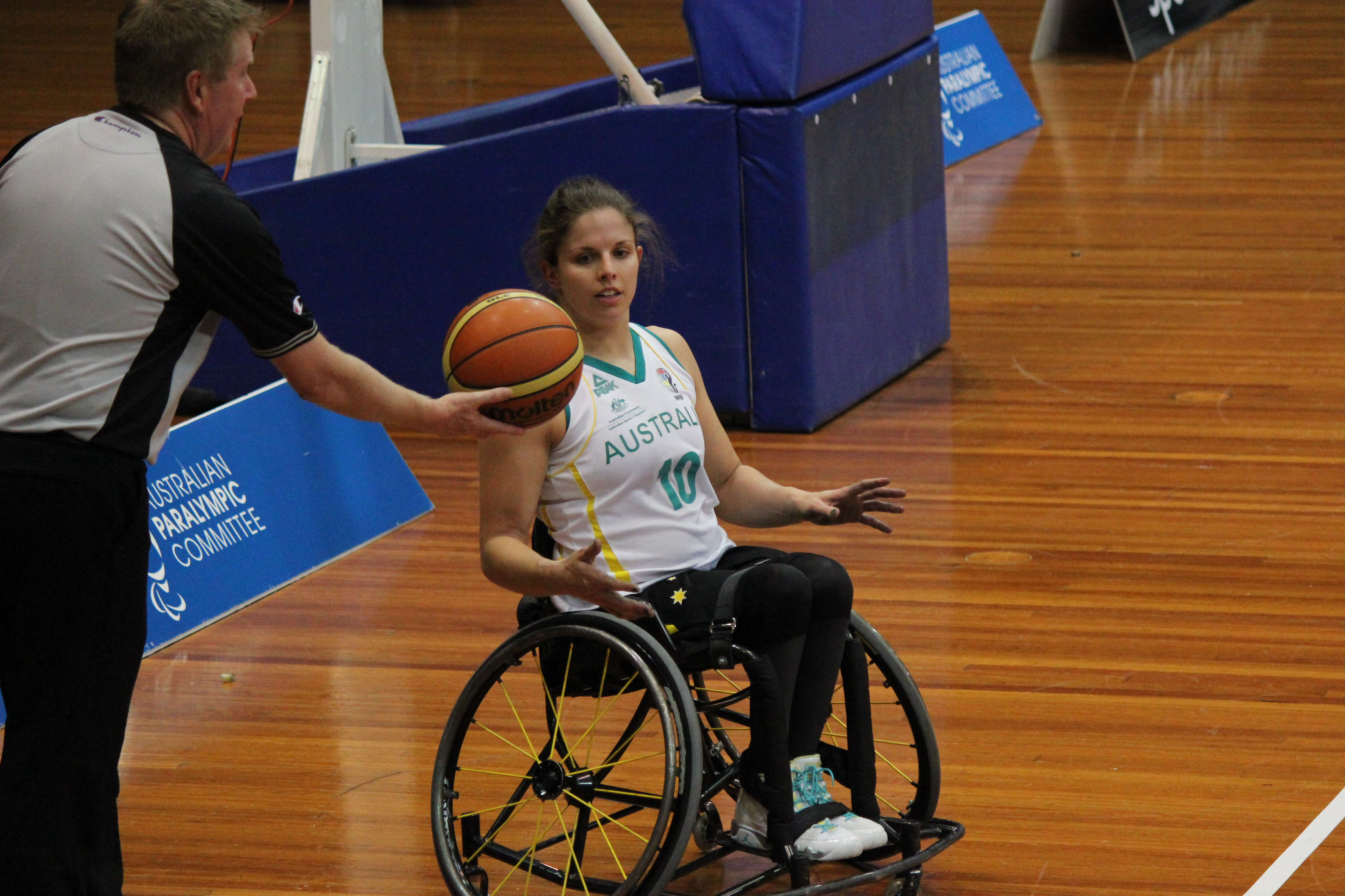 Australian Glider player Clare Nott at the Australian Glider & Rollers World Challenge in July 2012.